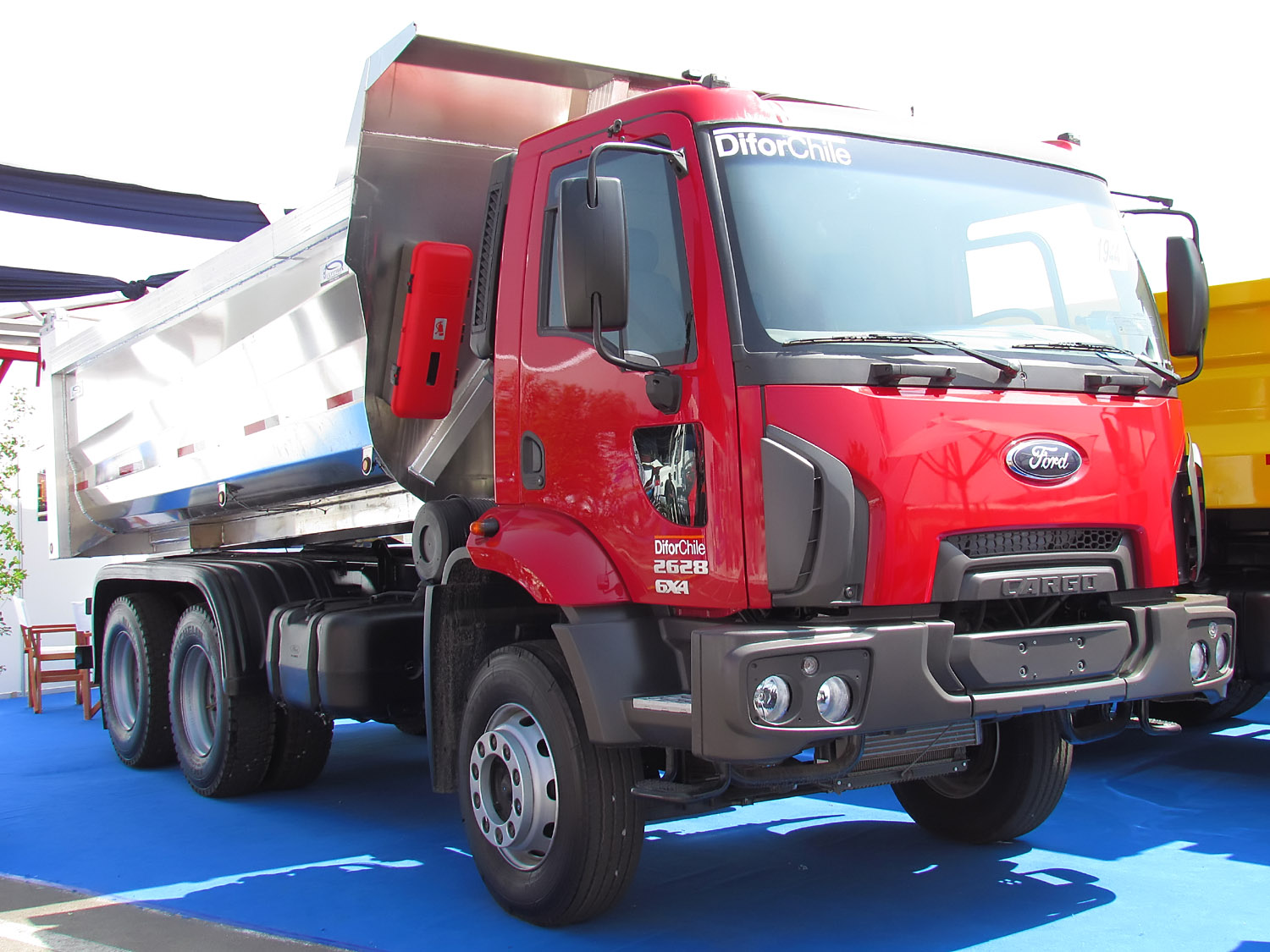 Ford Cargo 2628 6x4 truck model 2012. DiforChile.